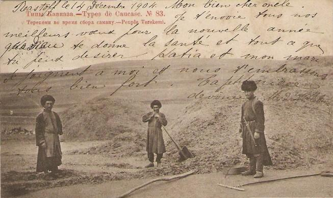 Terekeme gathering samani